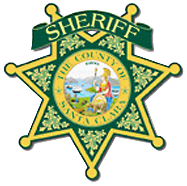 Patch